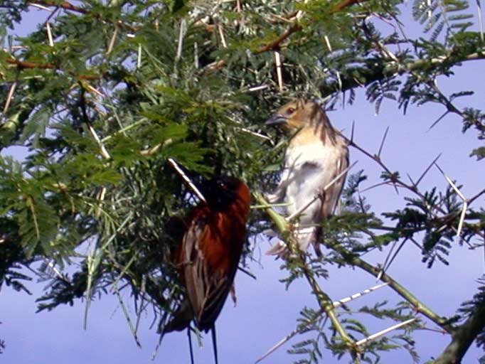 Ploceus rubiginosus Female (right) and male (left), picture taken in Namibia en: chestnut weaver nl: kastanjewever